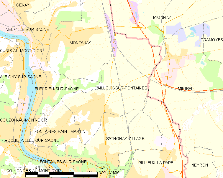 Map of French municipality